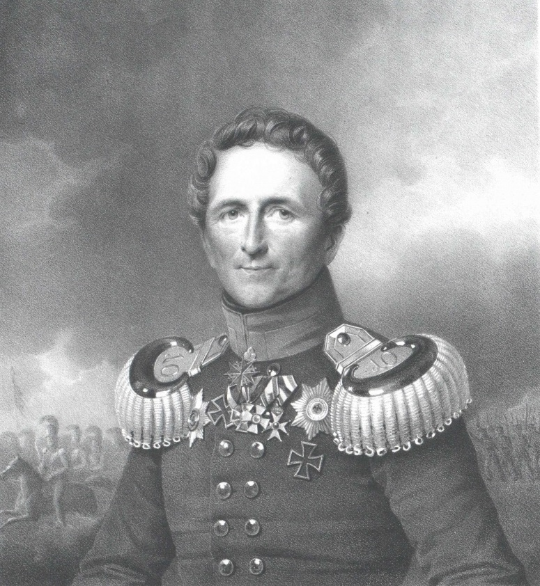 Karl von Hake, Royal Prussian War Minister and General of the Infantry. Lithographed portrait.